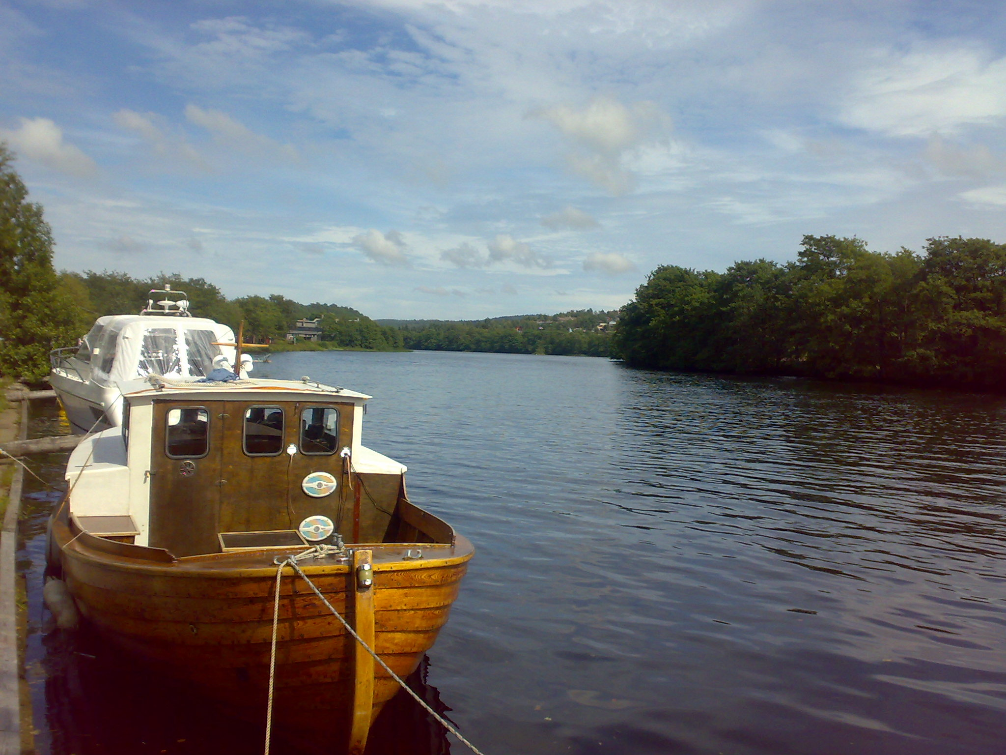 Mandalselva (Mandal River), at Buoy in Mandal, Norway